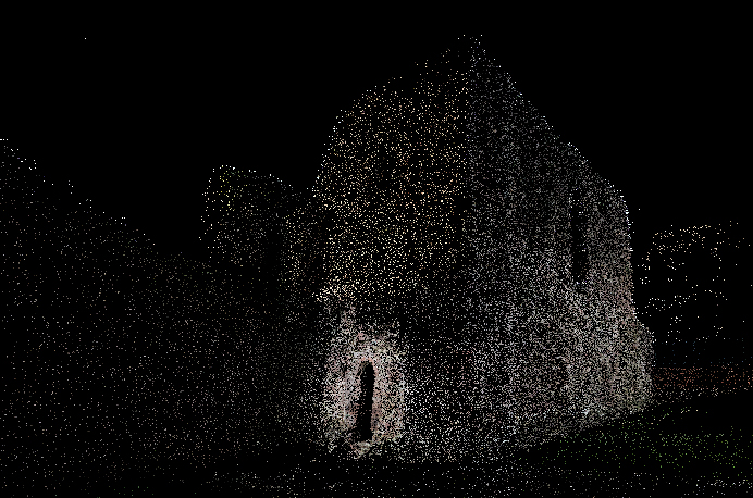 Monmouth castle point cloud, created with Photosynth